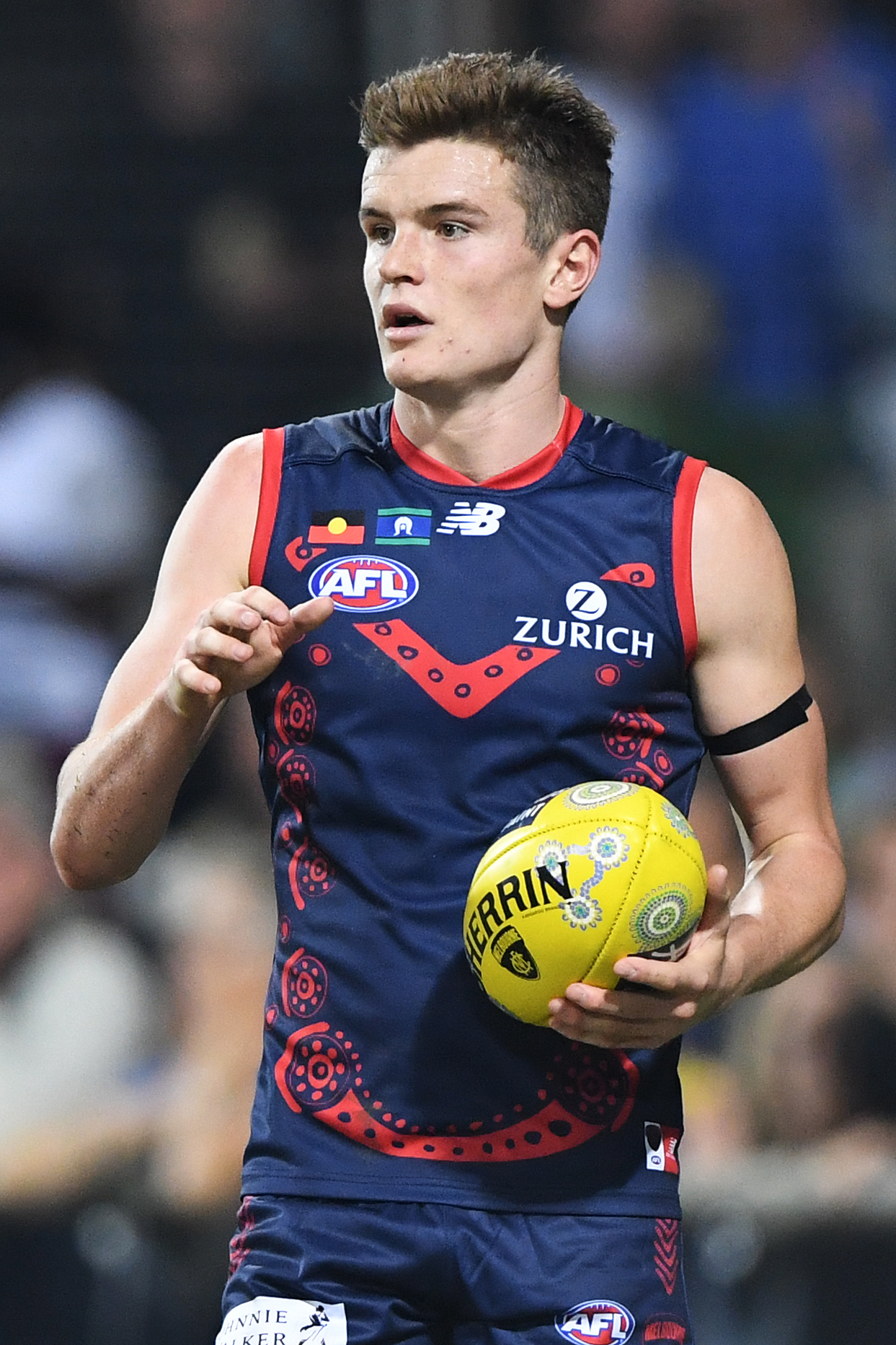 Bayley Fritsch of Melbourne during the 2019 AFL round 11 match between Melbourne and Adelaide at TIO Stadium on Saturday, 1 June 2019 in Darwin, Northern Territory.